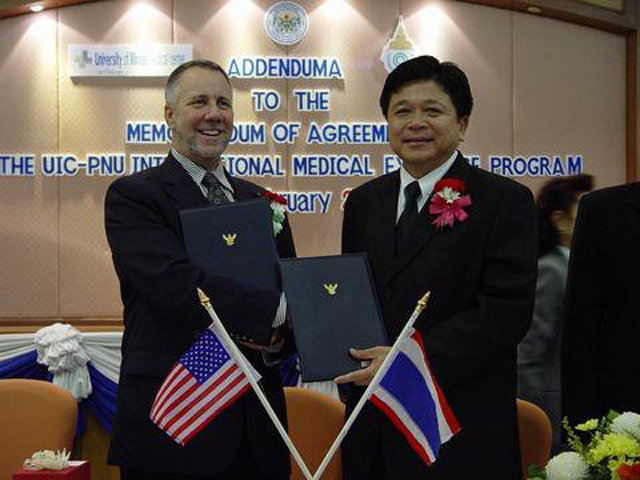 pnu_uic.jpg